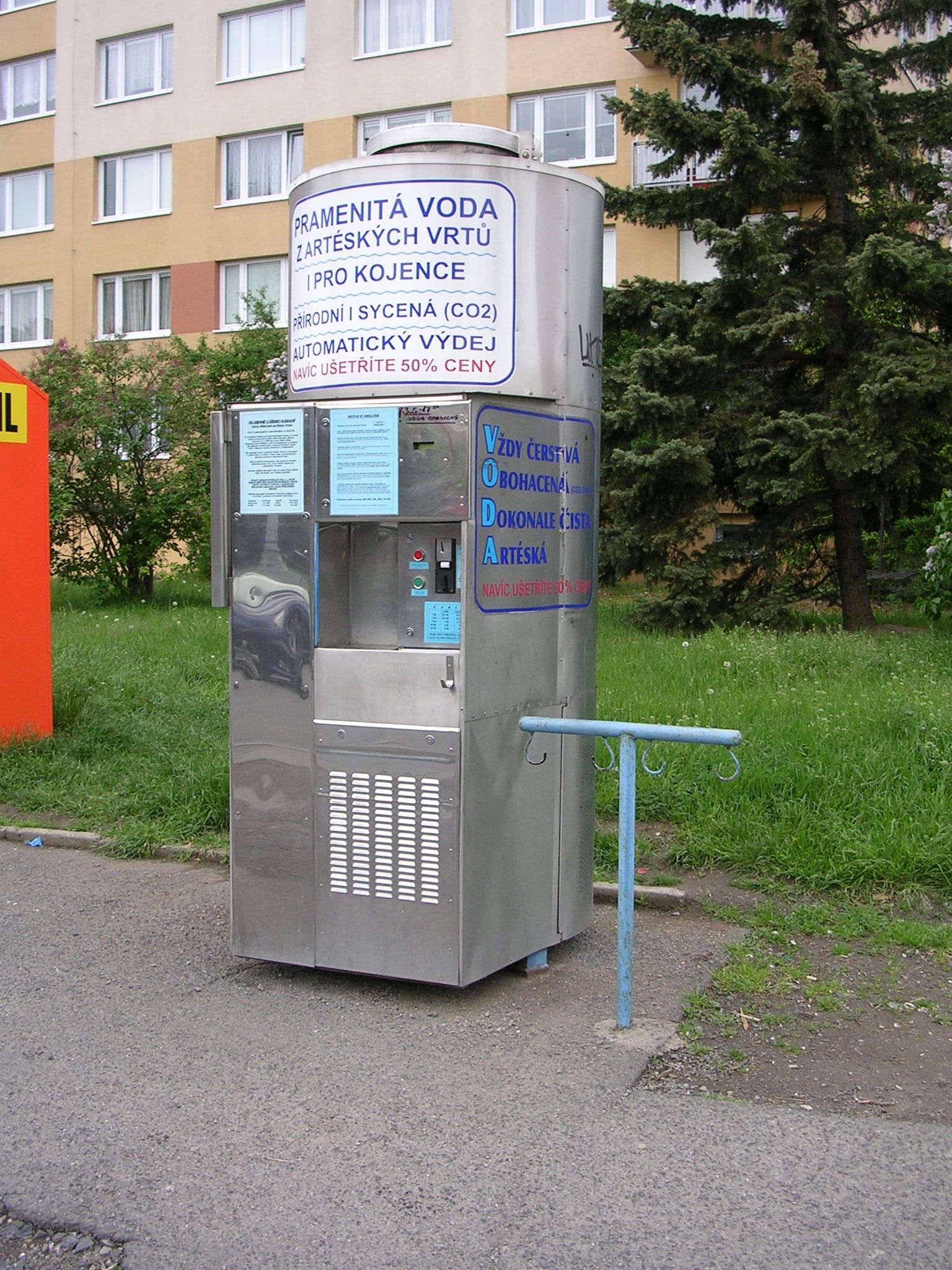 Prague-Záběhlice, the Czech Republic.